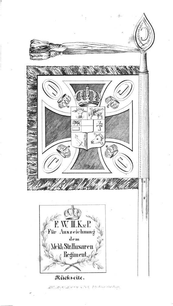 Standarte (Regimental colors) of the Mecklenburg-Strelitzischen Husaren-Regiment, frontispiece in Denkwürdigkeiten des Meklenburg-Strelitzischen Husaren-Regiments in den Jahren des Befreiungskampfes 1813 bis 1815: nach dem Tagebuche eines alten Husaren und authentischen Quellen niedergeschrieben. Neubrandenburg: C Brünslow 1854 (Digitalisat)